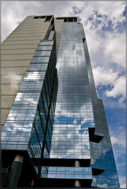 Monte Falcone Tower in Moscow,135 m,35 fl